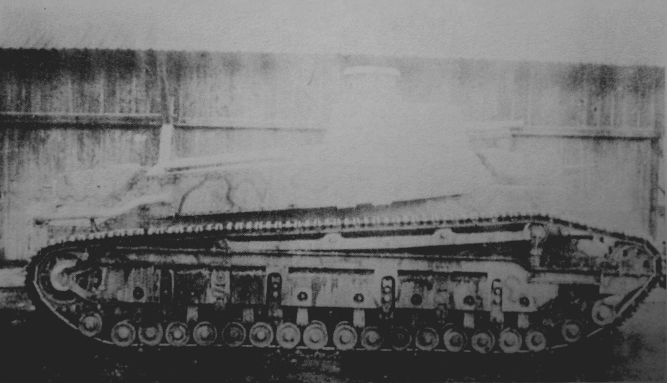 Imperial Japanese Army Experimental tank No.1